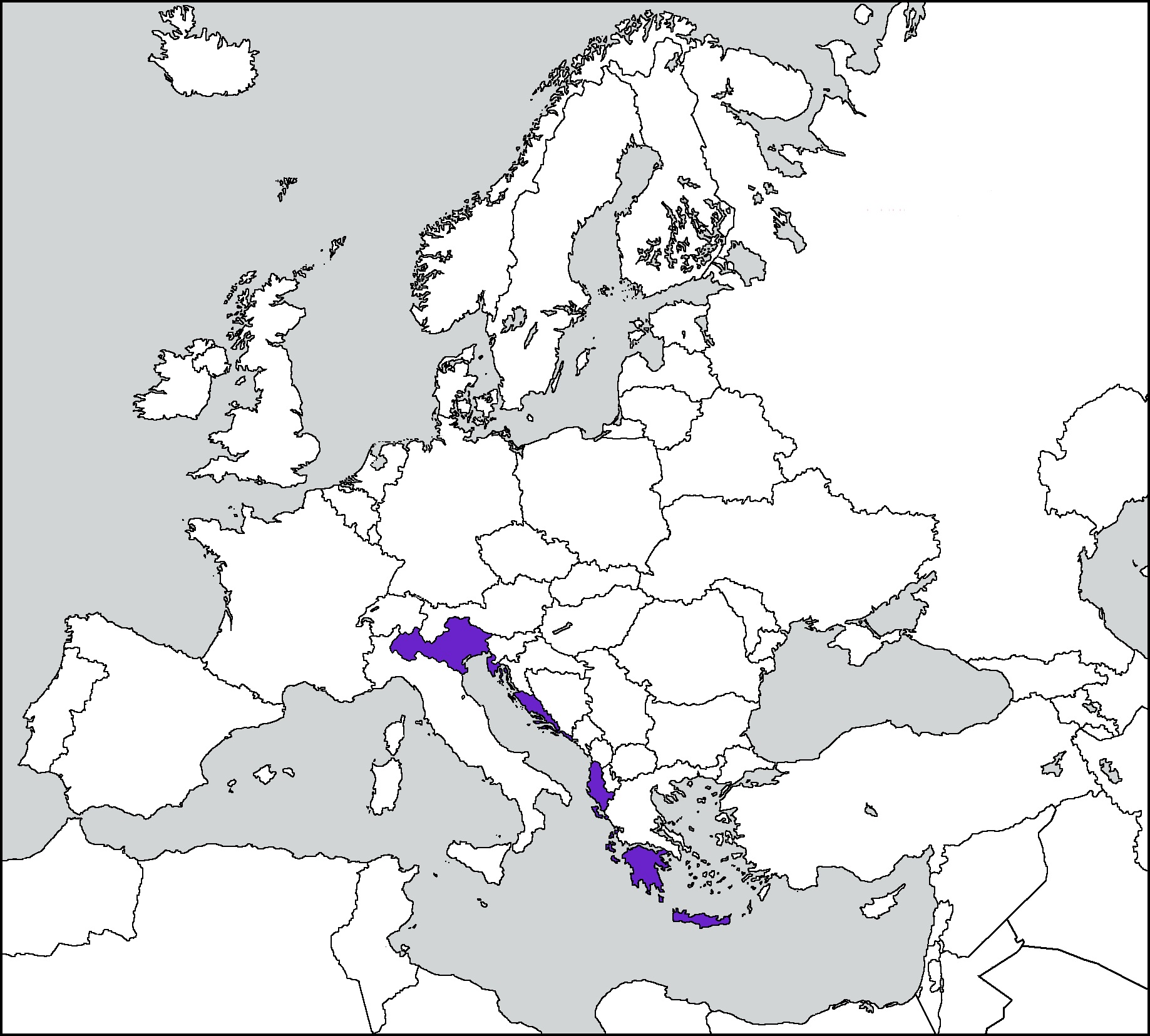 The Republic of Venice in the Year of our Lord 1700